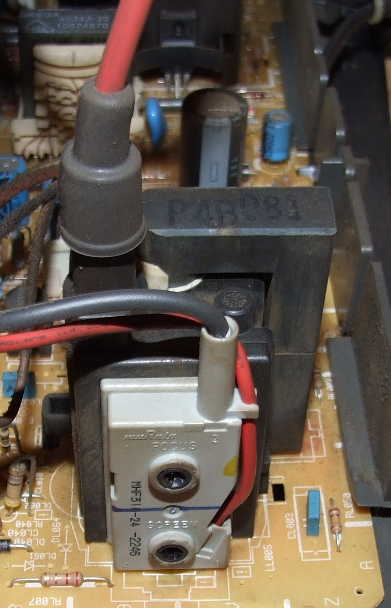 Diode Split Flyback transformer